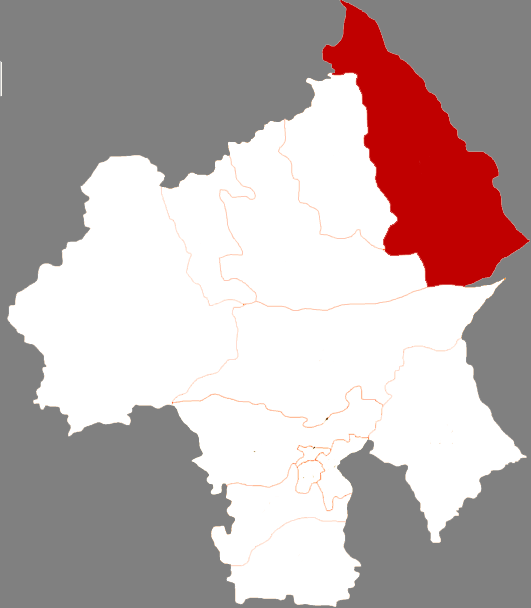 Location of Ar Khorchin Banner in Chifeng City, China